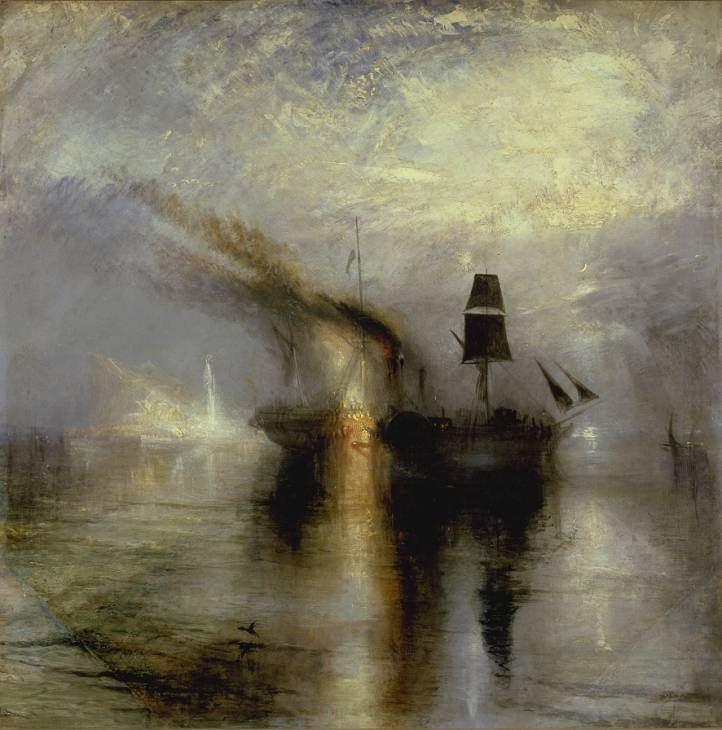 Painting showing burial of his friend the artist David Wilkie. Exhibited 1842, displayed alongside and contrasting with Turner's 'War'.